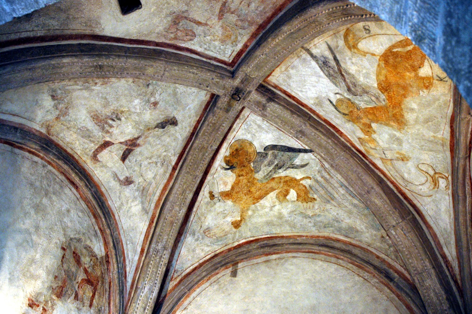 Vault of the quire of church of Saint Michael at the Michaelsberg near Cleebronn.